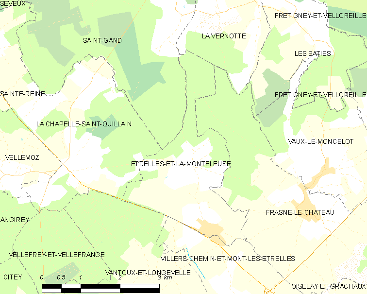 Map of French municipality